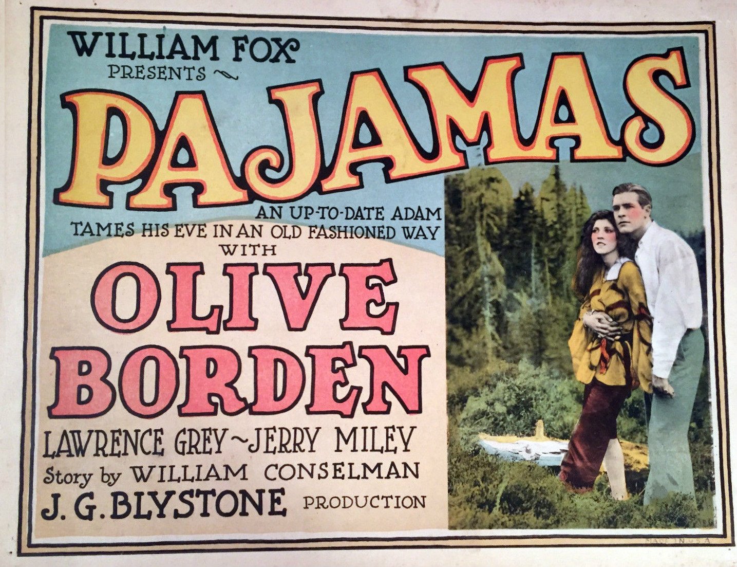 Lobby card for the American romantic comedy film Pajamas (1927).